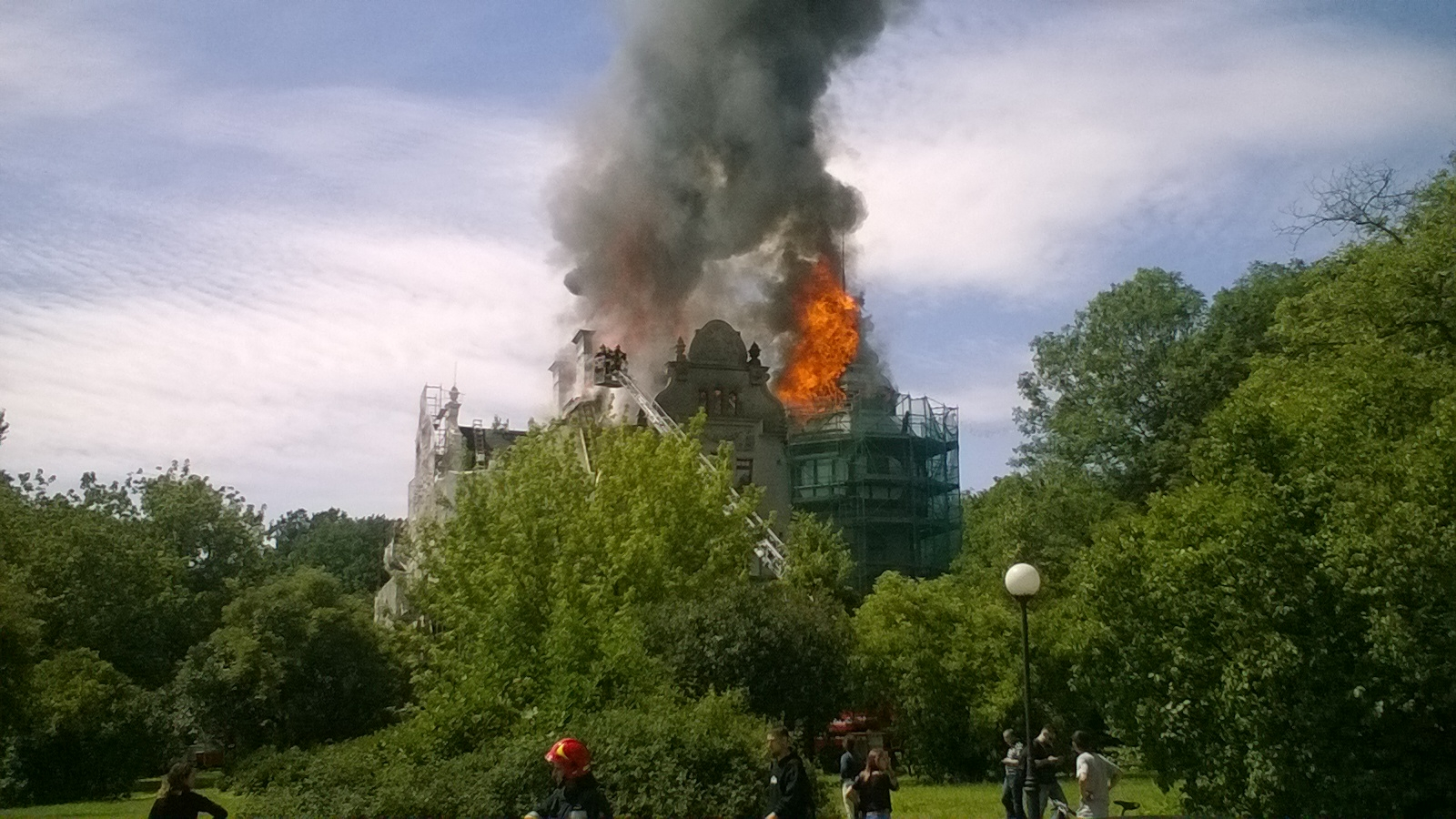 Burning of Richter's Villa, Łódź Technical University Rector's office, July 8th 2016